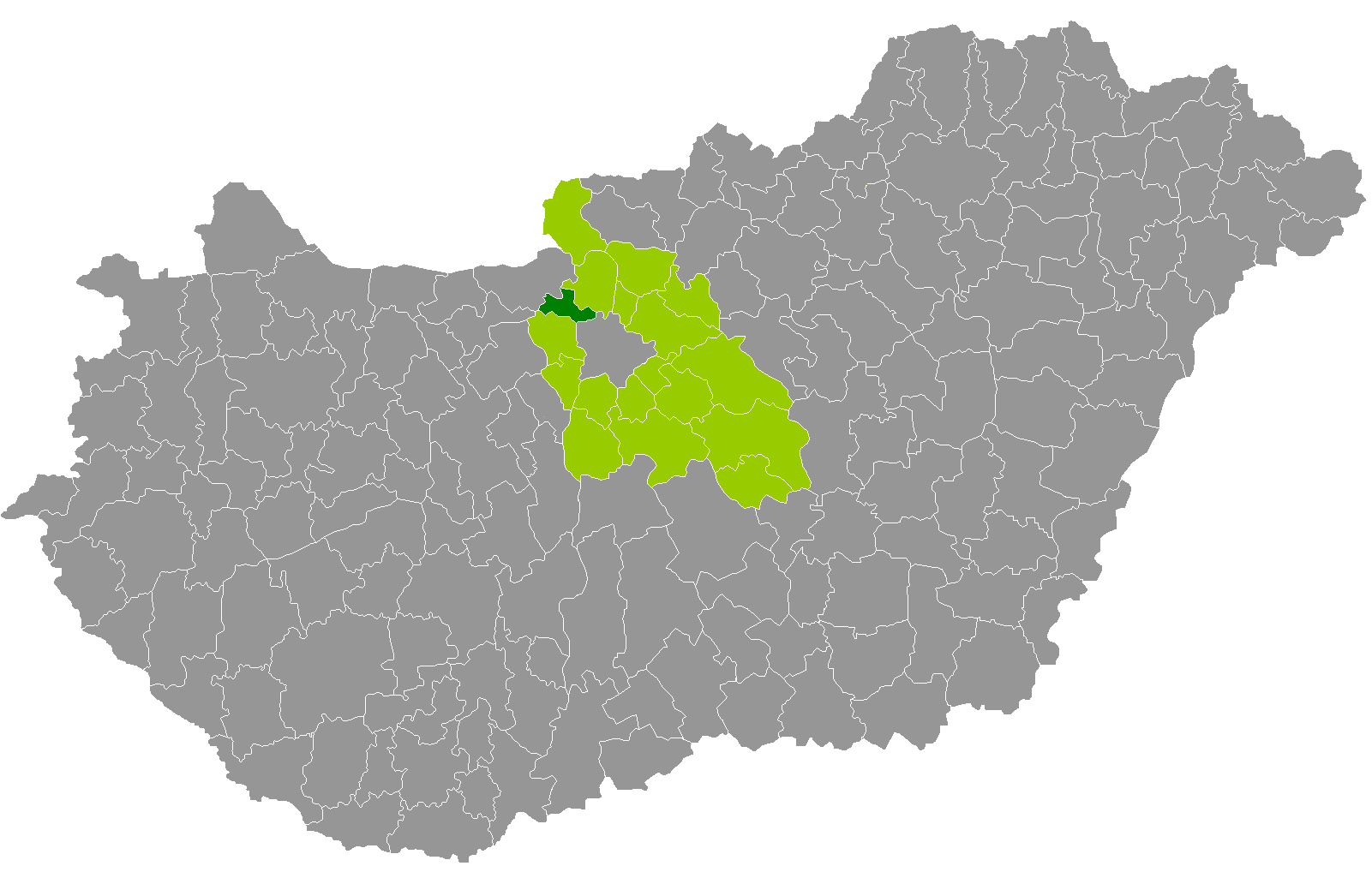 Location of Pilisvörösvár District, Pest, Hungary